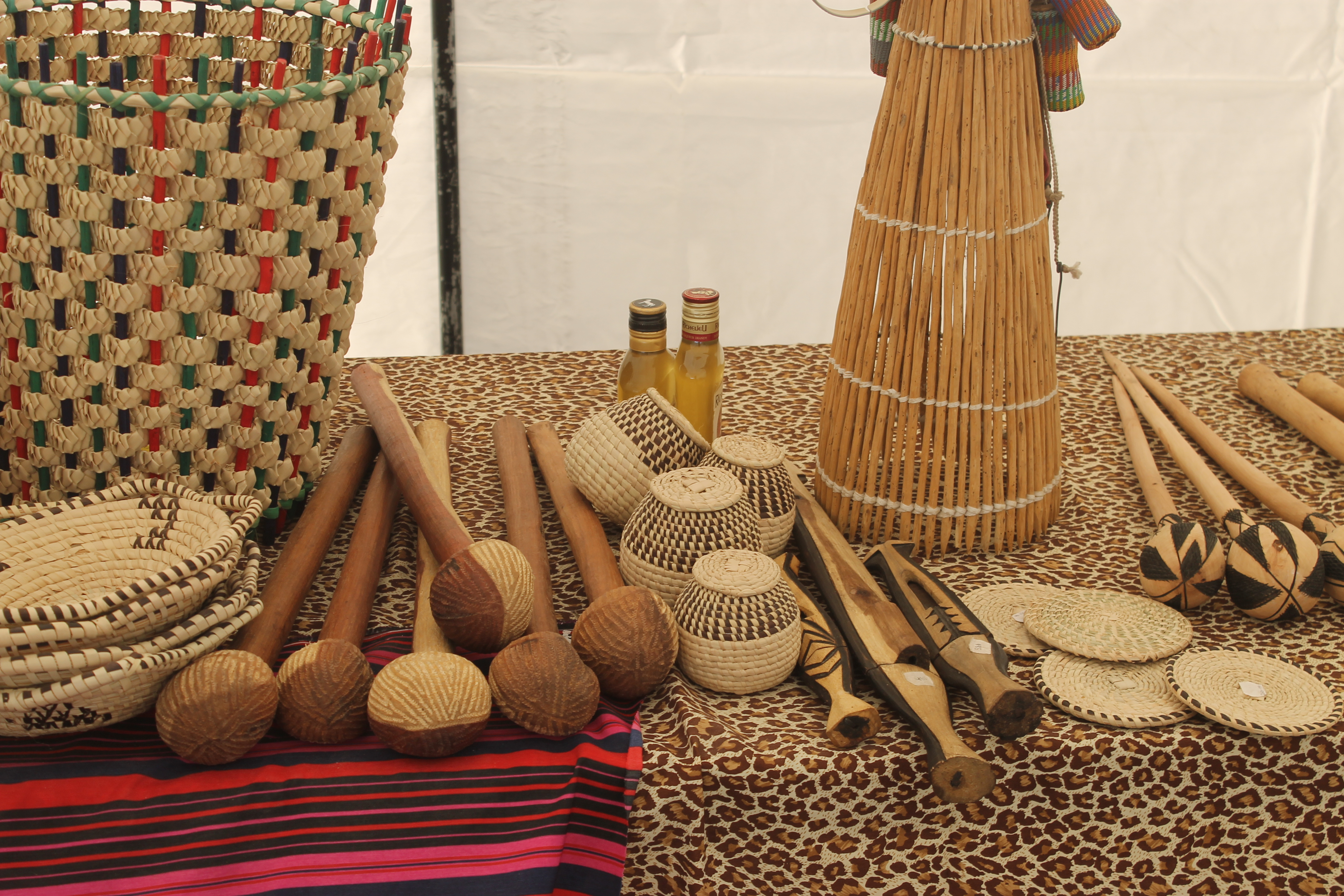 This is an image with the theme "Play" from: Namibia